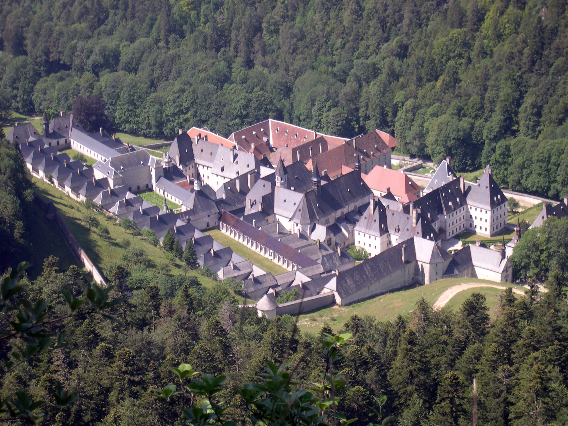 Monastery of the Grande Chartreuse, in Saint-Pierre-de-Chartreuse (Isère, Rhône-Alpes, France).